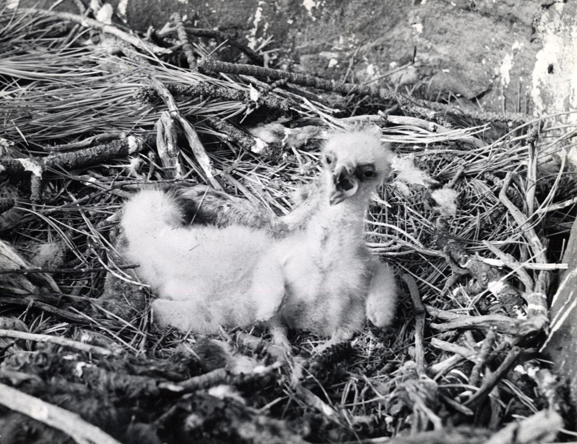 Original Collection: Edwin Russell Jackman Photographic Collection Item Number: P89:261 You can find this image by searching for the item number by clicking here. Want more? You can find more digital resources online. We're happy for you to share this digital image within the spirit of The Commons; however, certain restrictions on high quality reproductions of the original physical version may apply. To read more about what “no known restrictions” means, please visit the Special Collections & Archives website, or contact staff at the OSU Special Collections & Archives Research Center for details.